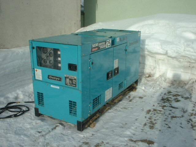 Conveyed type dynamo.